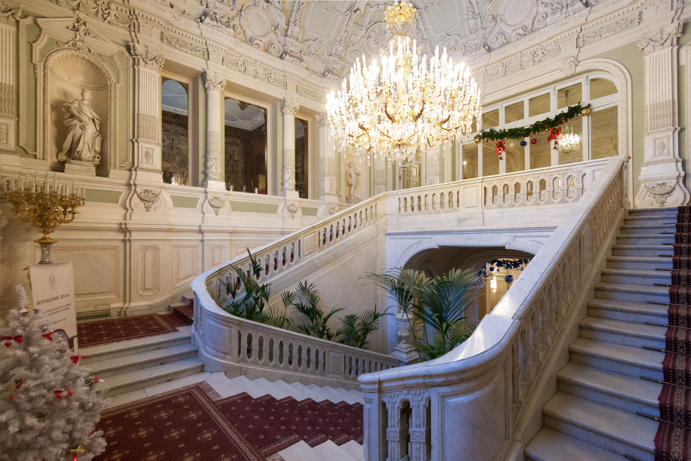 Main staircase of the Yusupov Palace